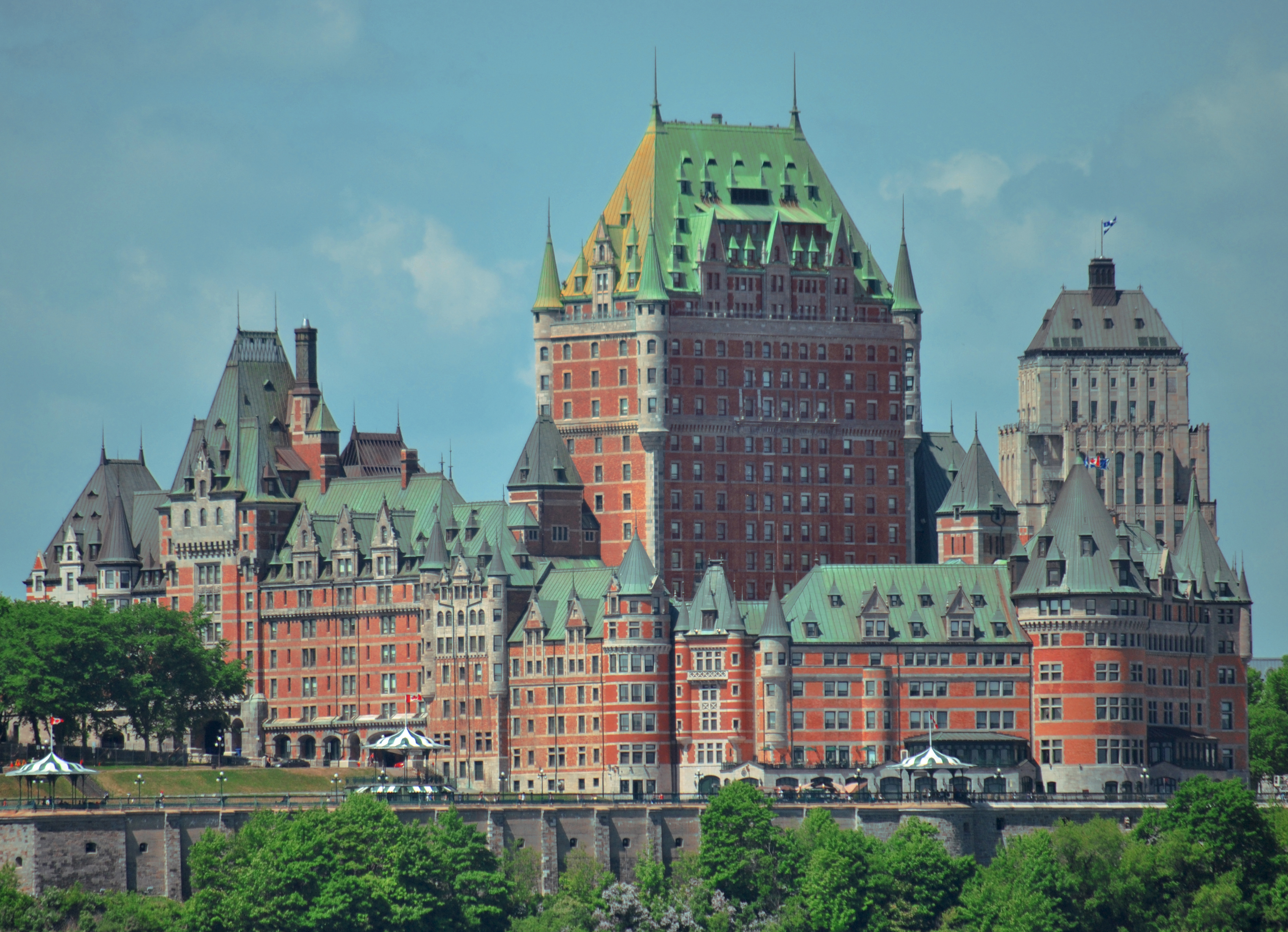 The Château Frontenac, in Quebec City (Canada).